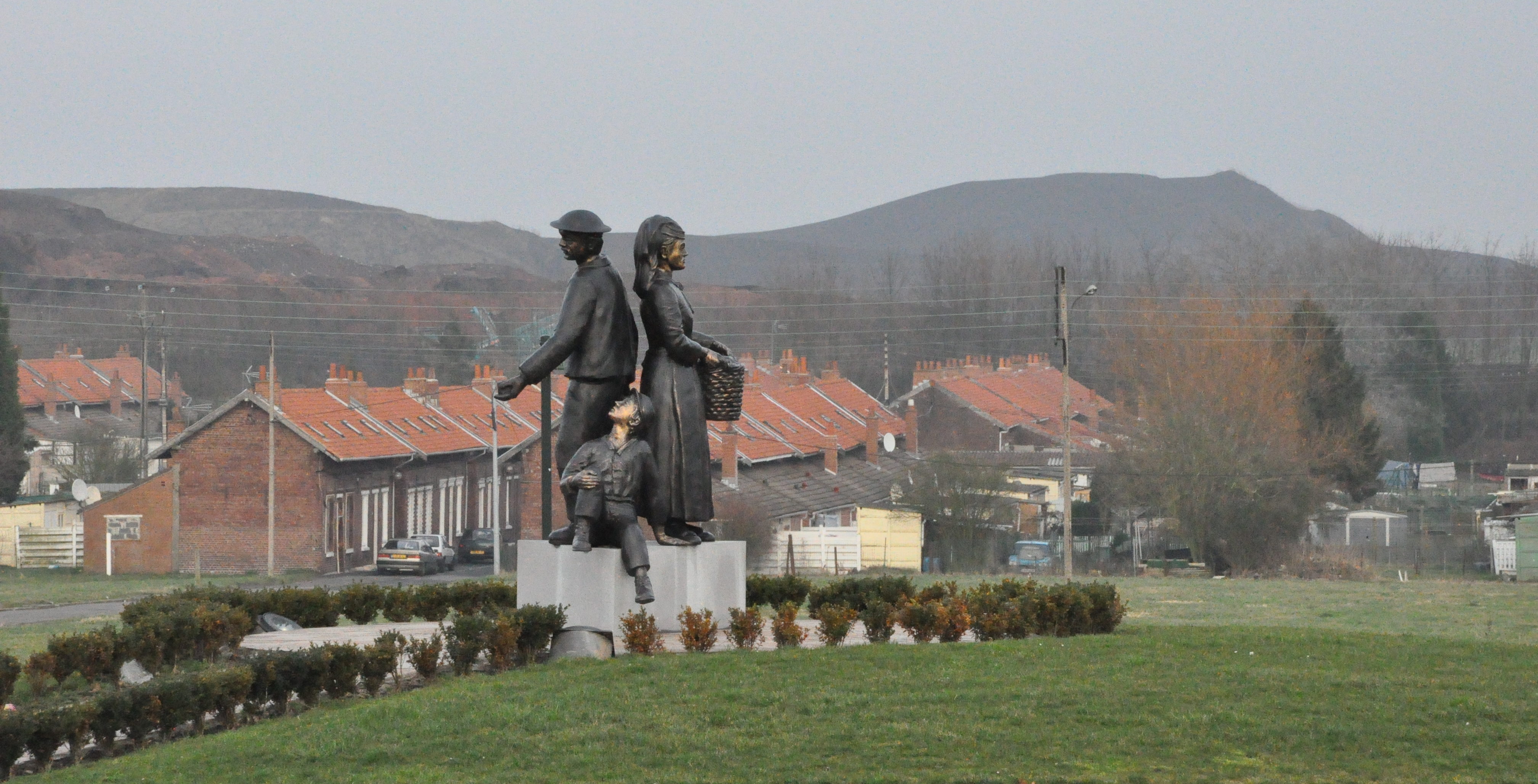 Auchel